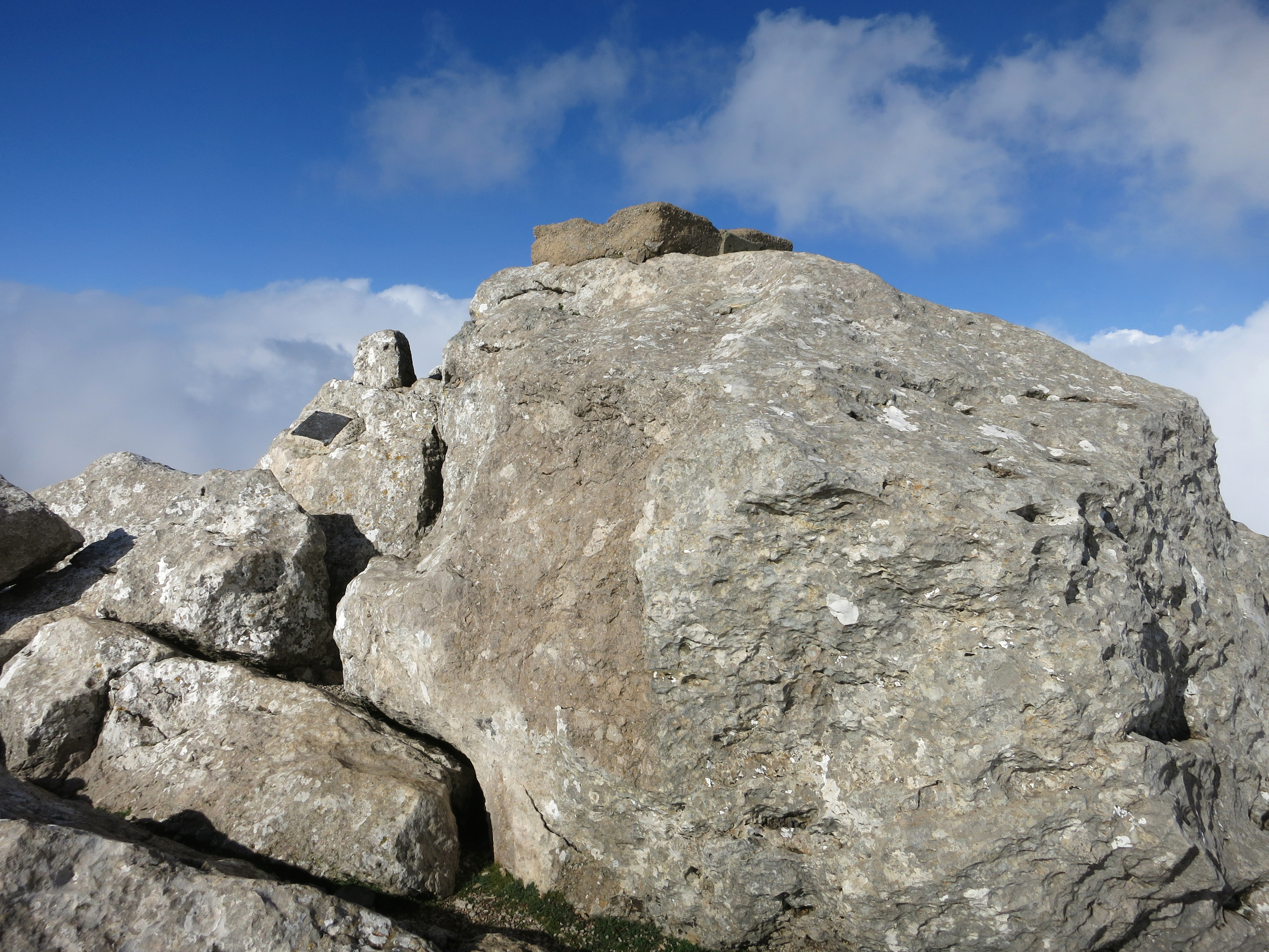 On top of Puig Massanella, Mallorca